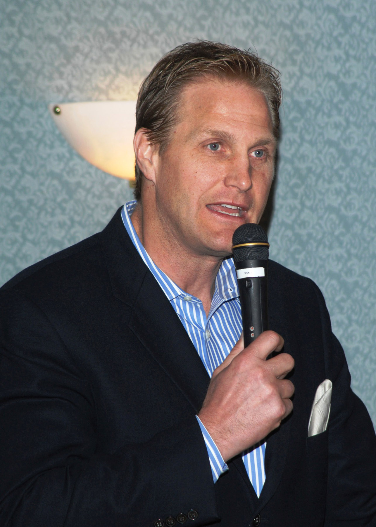 U.S. Air Force Academy graduate and Gulf War veteran Chad Hennings went from flying A-10 Thunderbolt IIs to playing professional football. Now he is an advocate for veterans and small businesses.